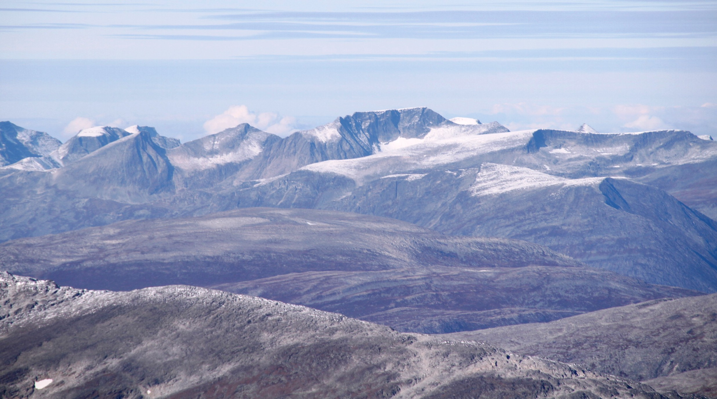 Image of the "Sunndalsfjella" Mountains in Sunndal municipality, Møre og Romsdal county, west Norway. The image is taken with zoom from the top of the "Snøhetta" mountain in Oppland county.